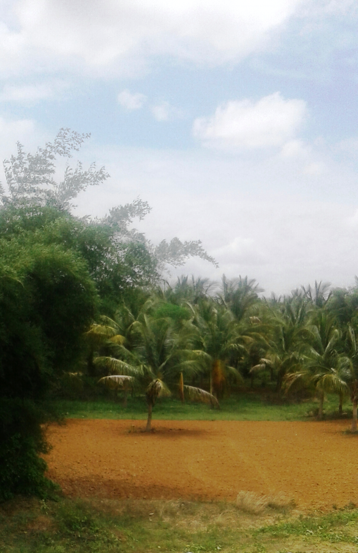 Tumkuru district, Karnataka state, India.